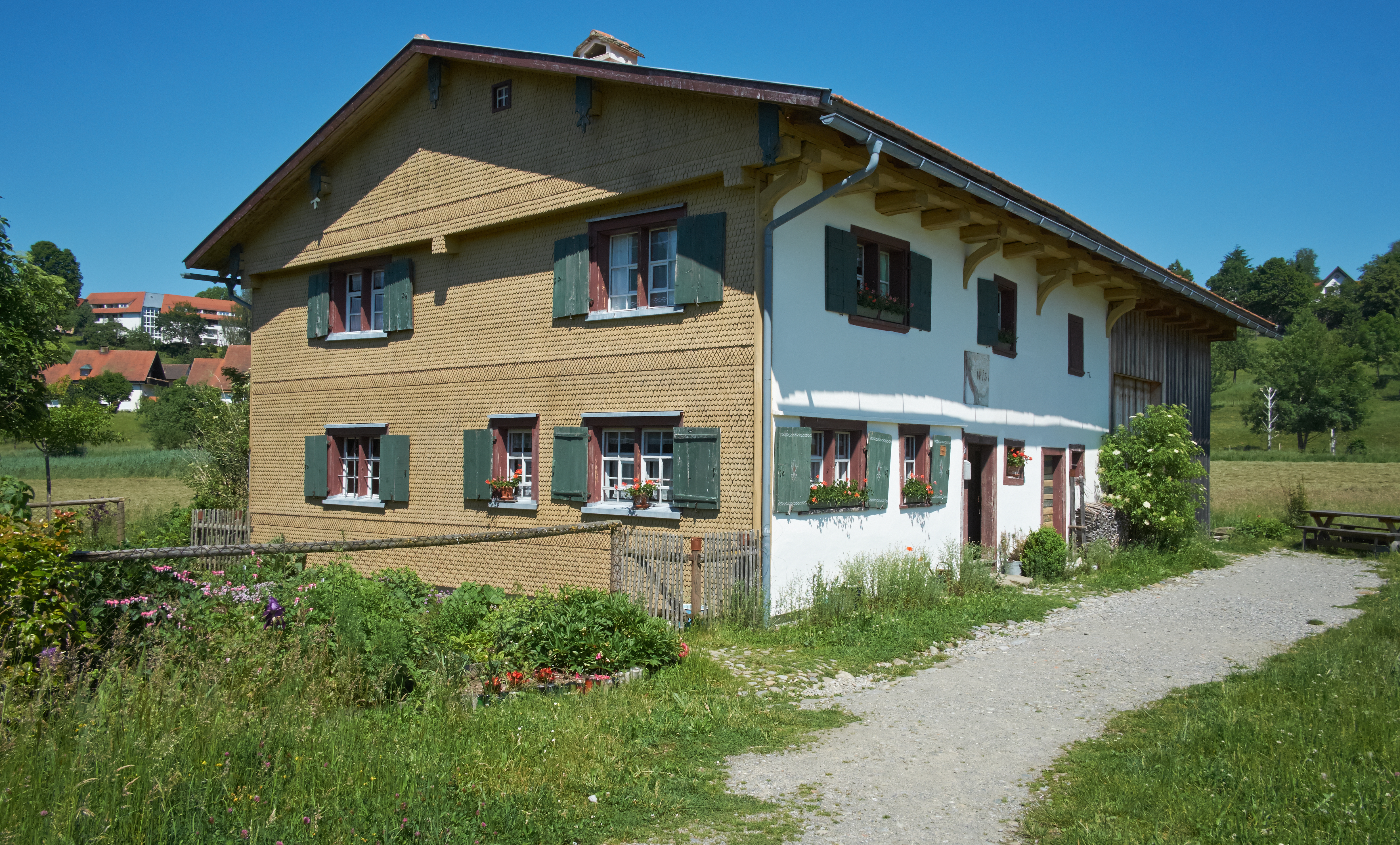 Farm house museum Wolfegg, Haus Andrinet, county Ravensburg, Baden-Württemberg, Germany